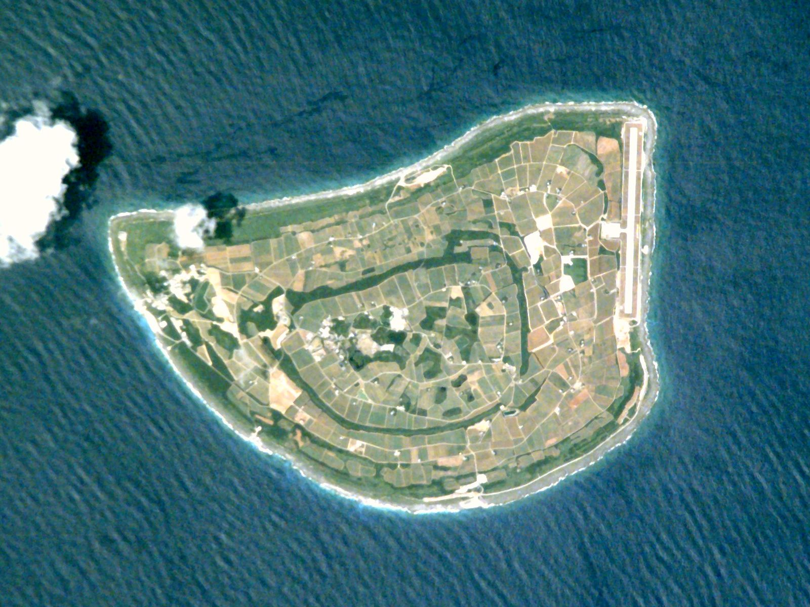 NASA astronaut image of Kita Daitō-jima (Northern Borodino Island), Japan